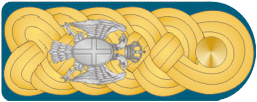 Field Marshal Serbian Army 1914-1918, tilted for the use on pl wiki